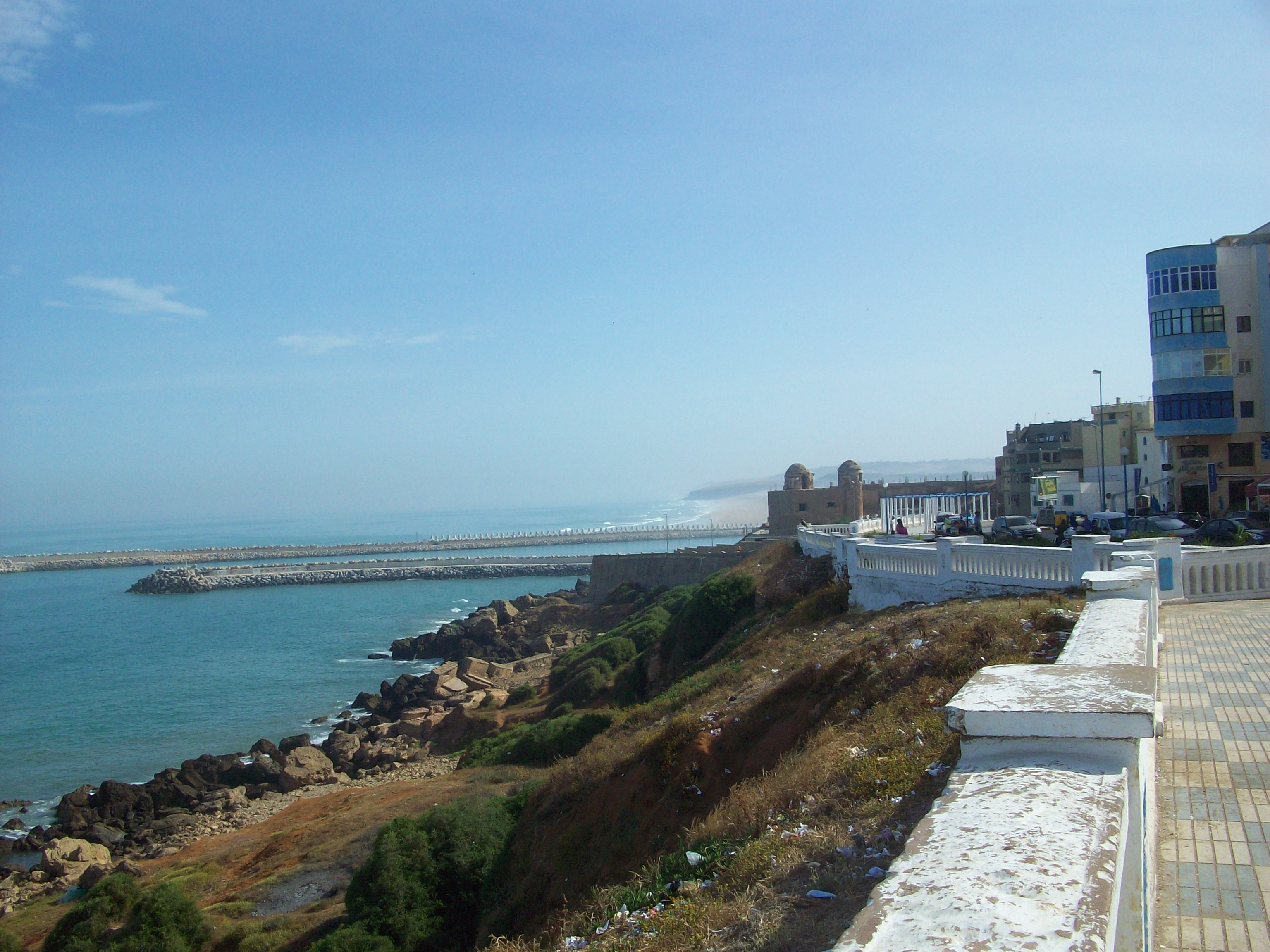 Seafront of Larache, Morocco